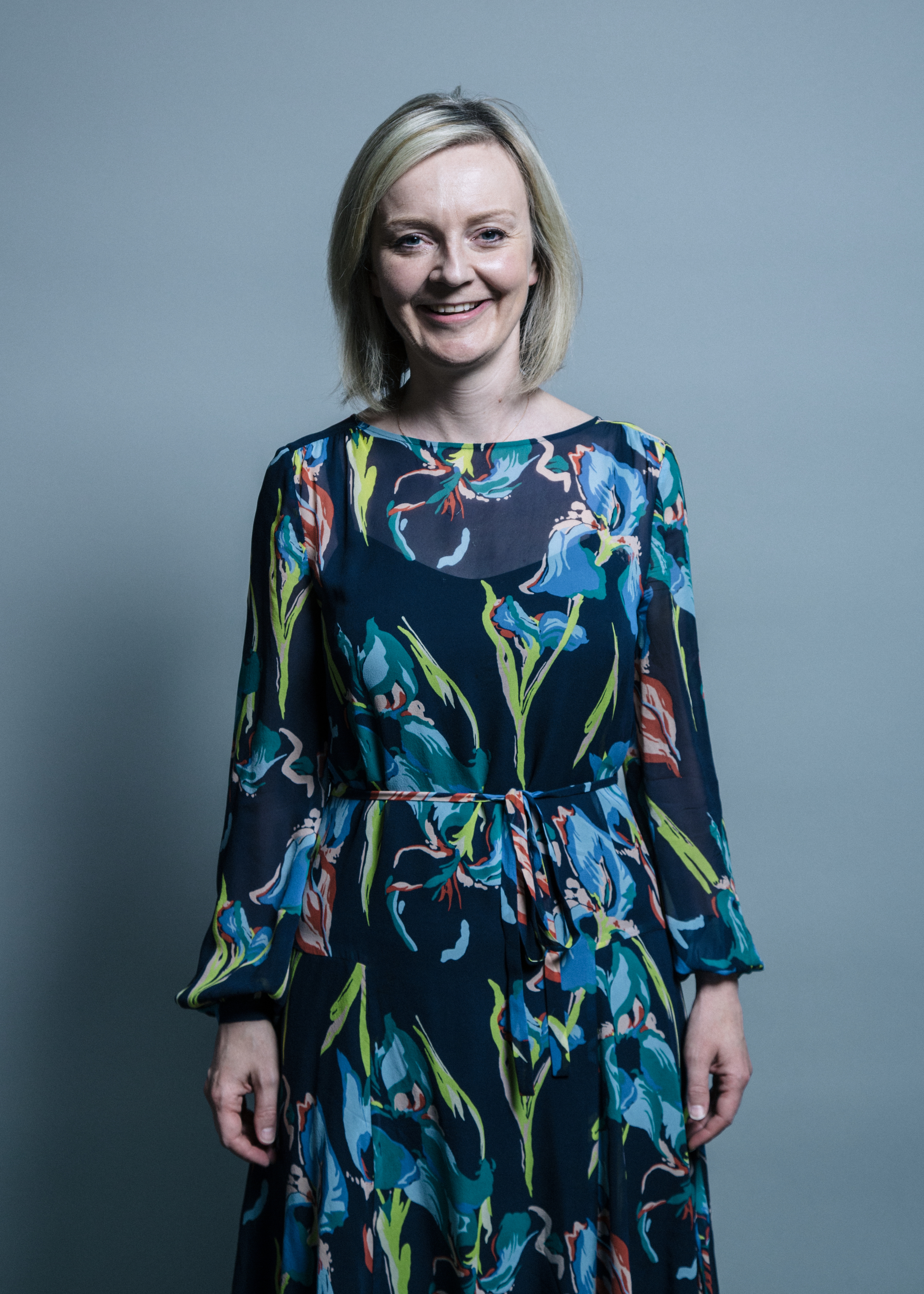 Official portrait of Elizabeth Truss